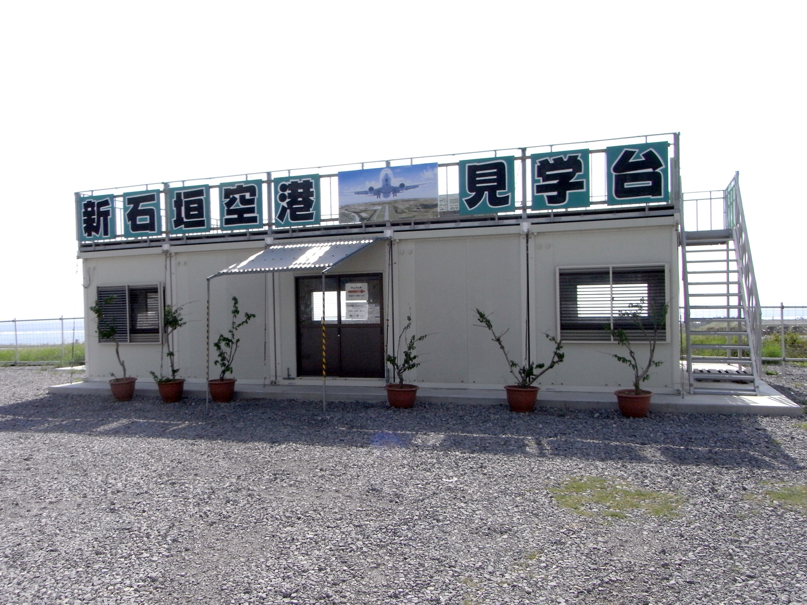 New Ishigaki Airport, Ishigaki, Okinawa, Japan